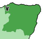 Map showing the location of Brodie Castle within Grampian, Scotland